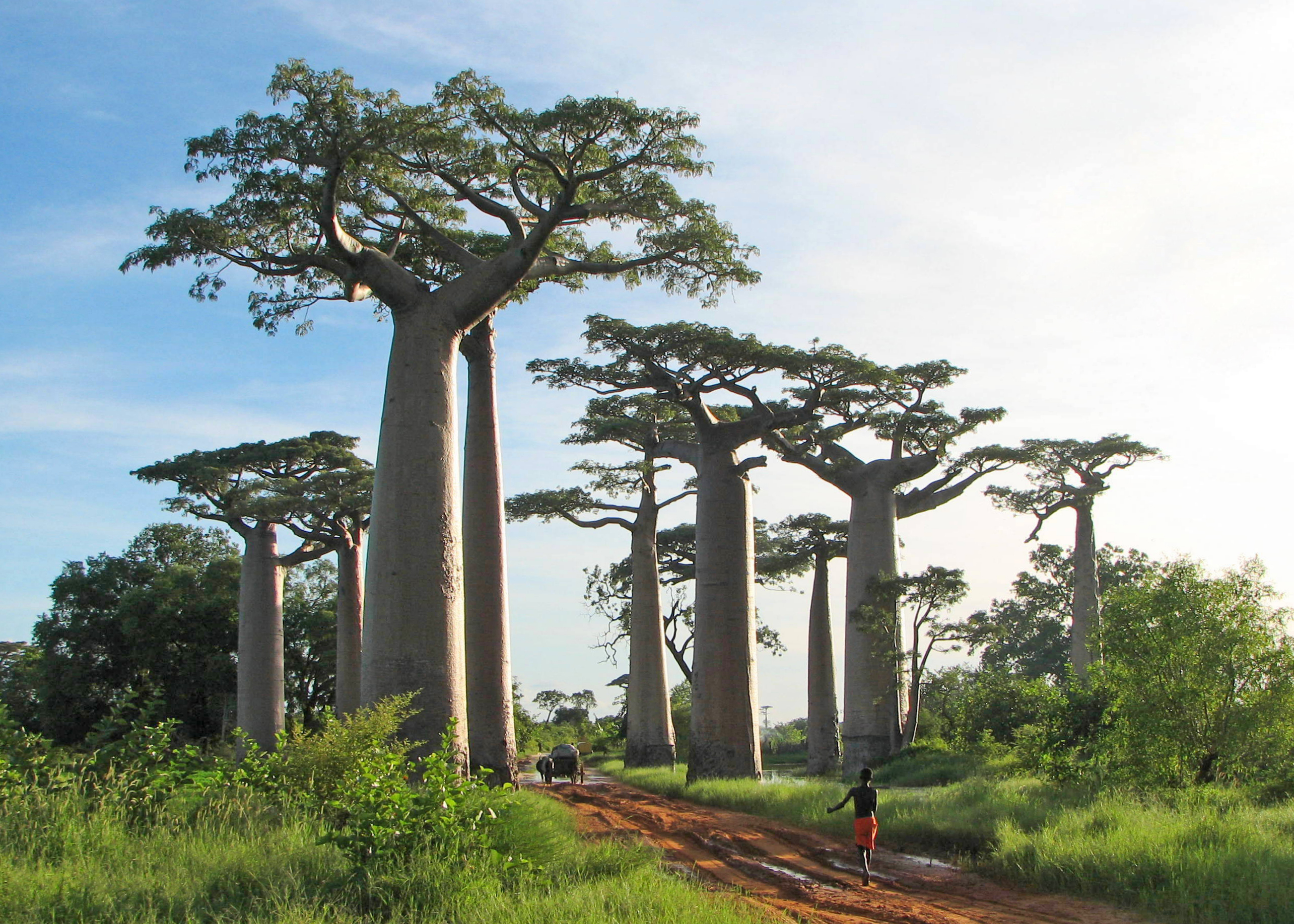 Adansonia grandidieri, baobab from Madagascar, picture taken near Morondava